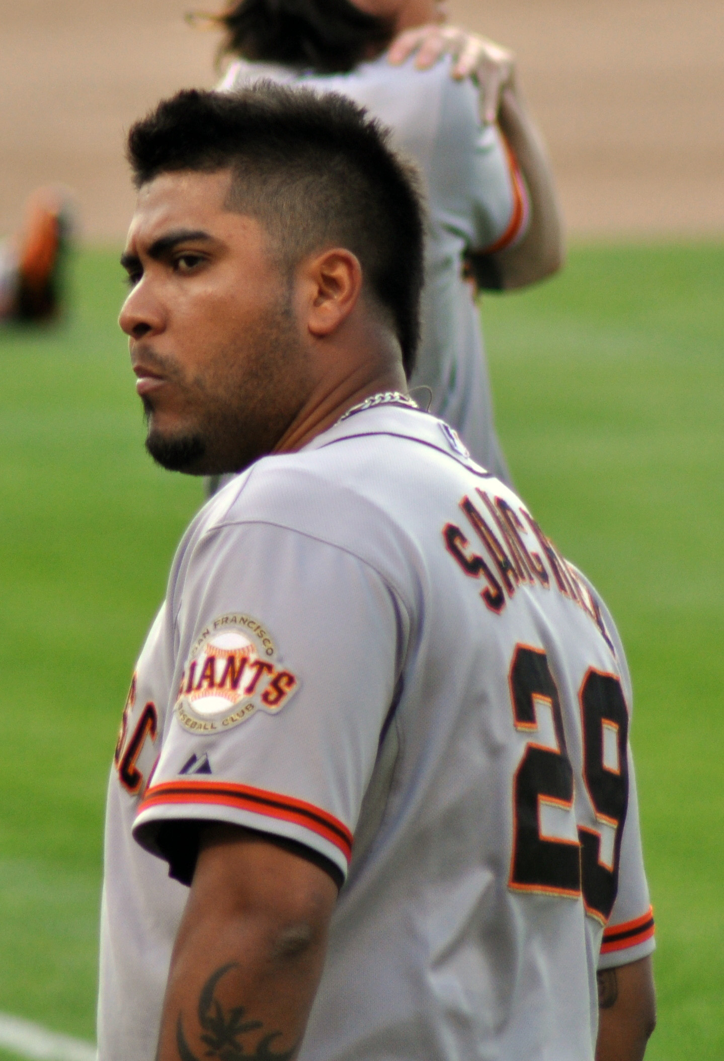 Héctor Sánchez playing for the Giants in June 2012.